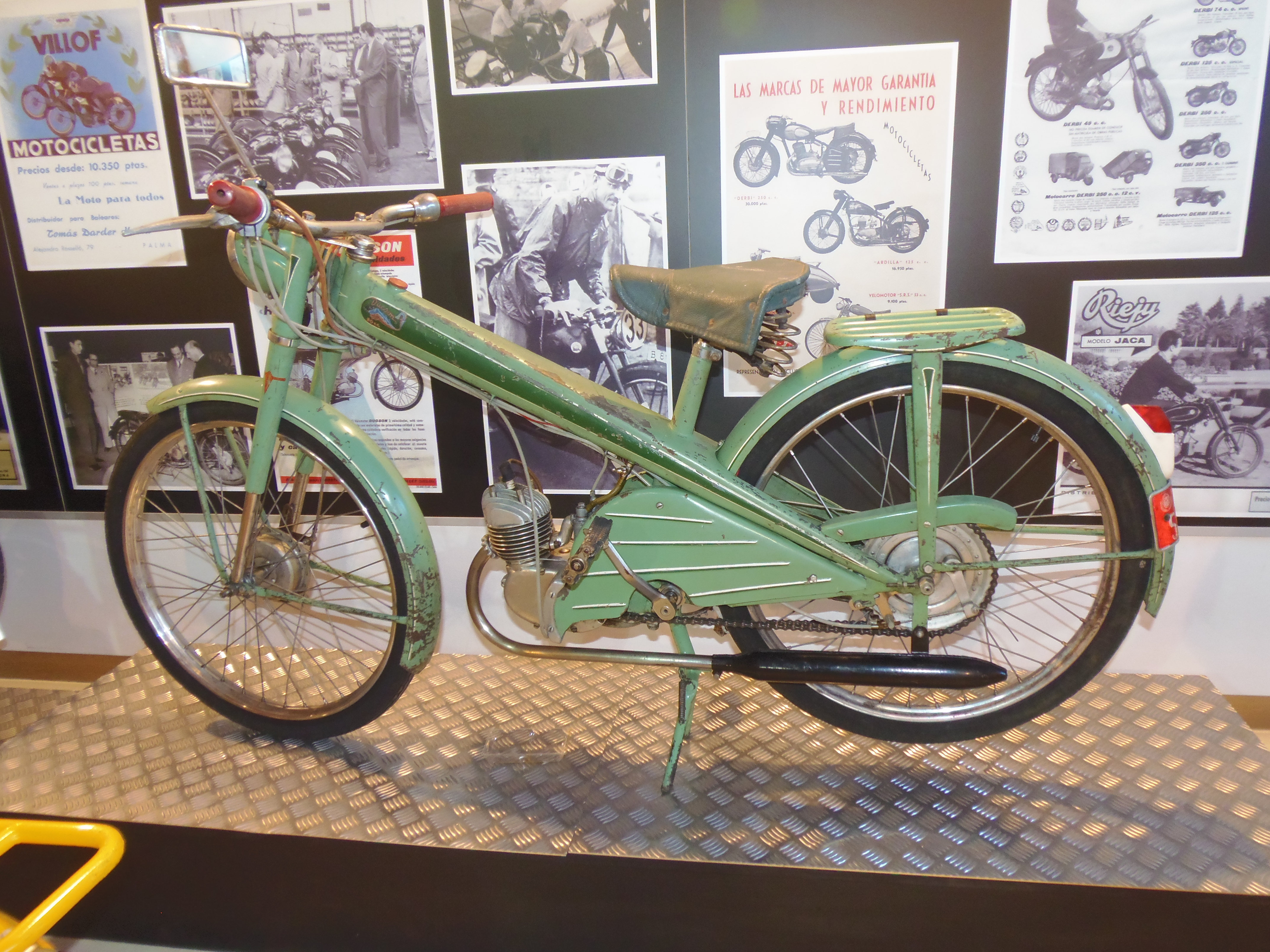 Ducson Dama 50 (1957) with a Setter engine